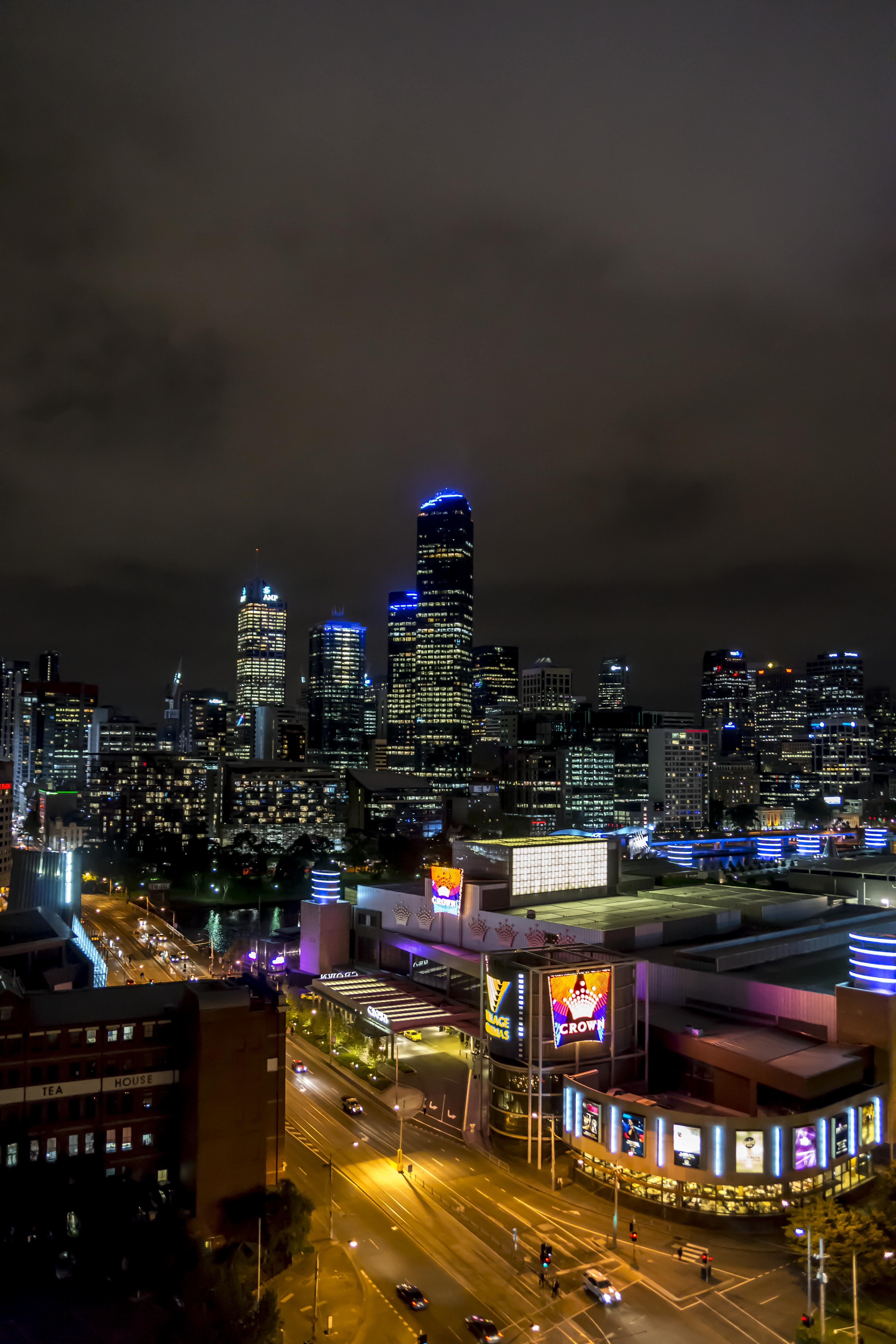 Melbourne at night, January 2014